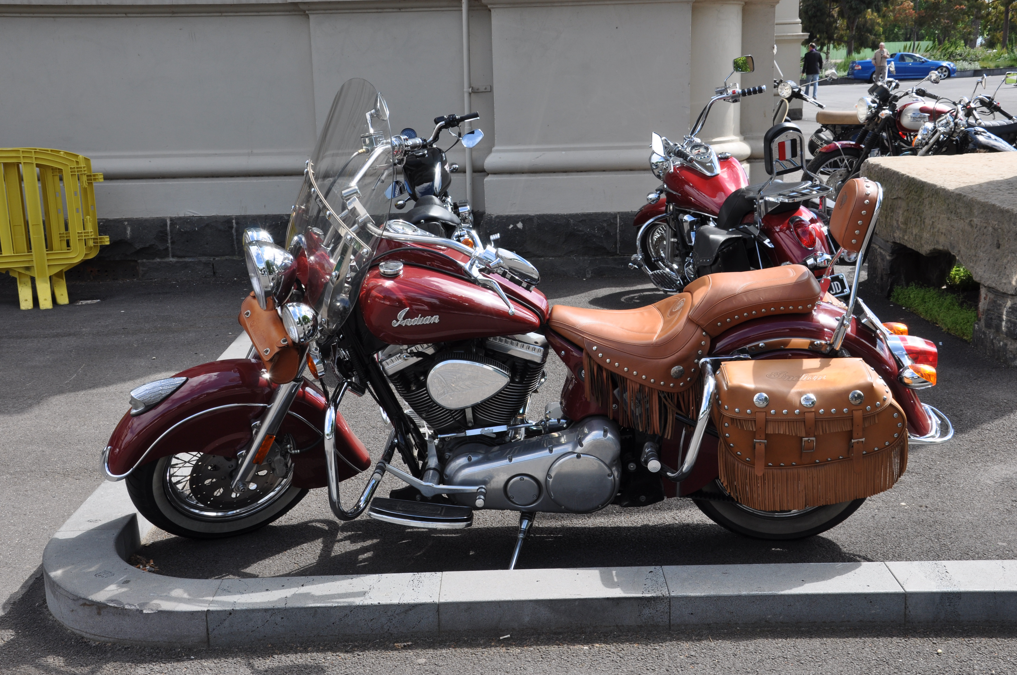 Indian motorcycle, Melbourne, Australia. Source by .au